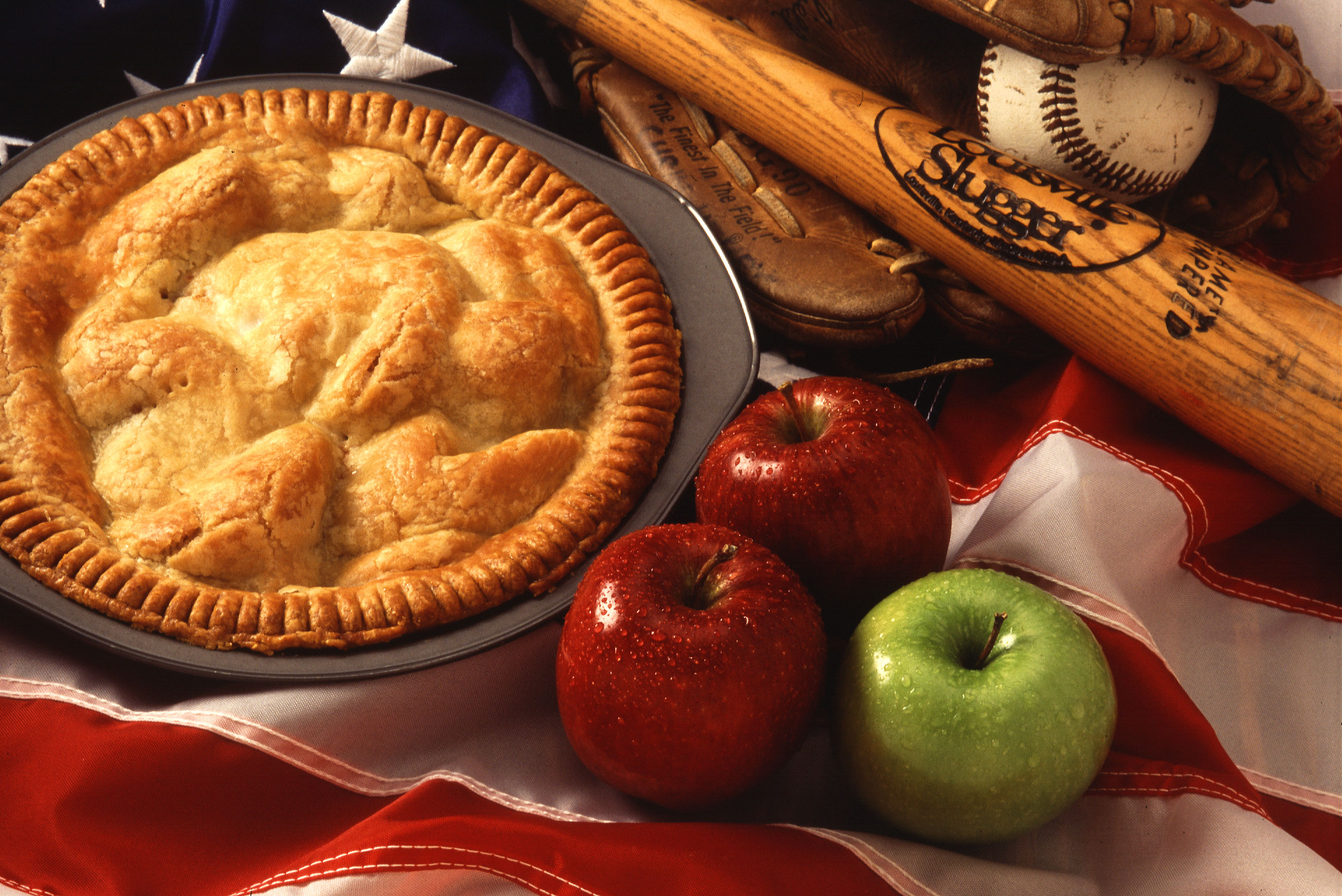 American cultural icons, apple pie, baseball, and the American flag